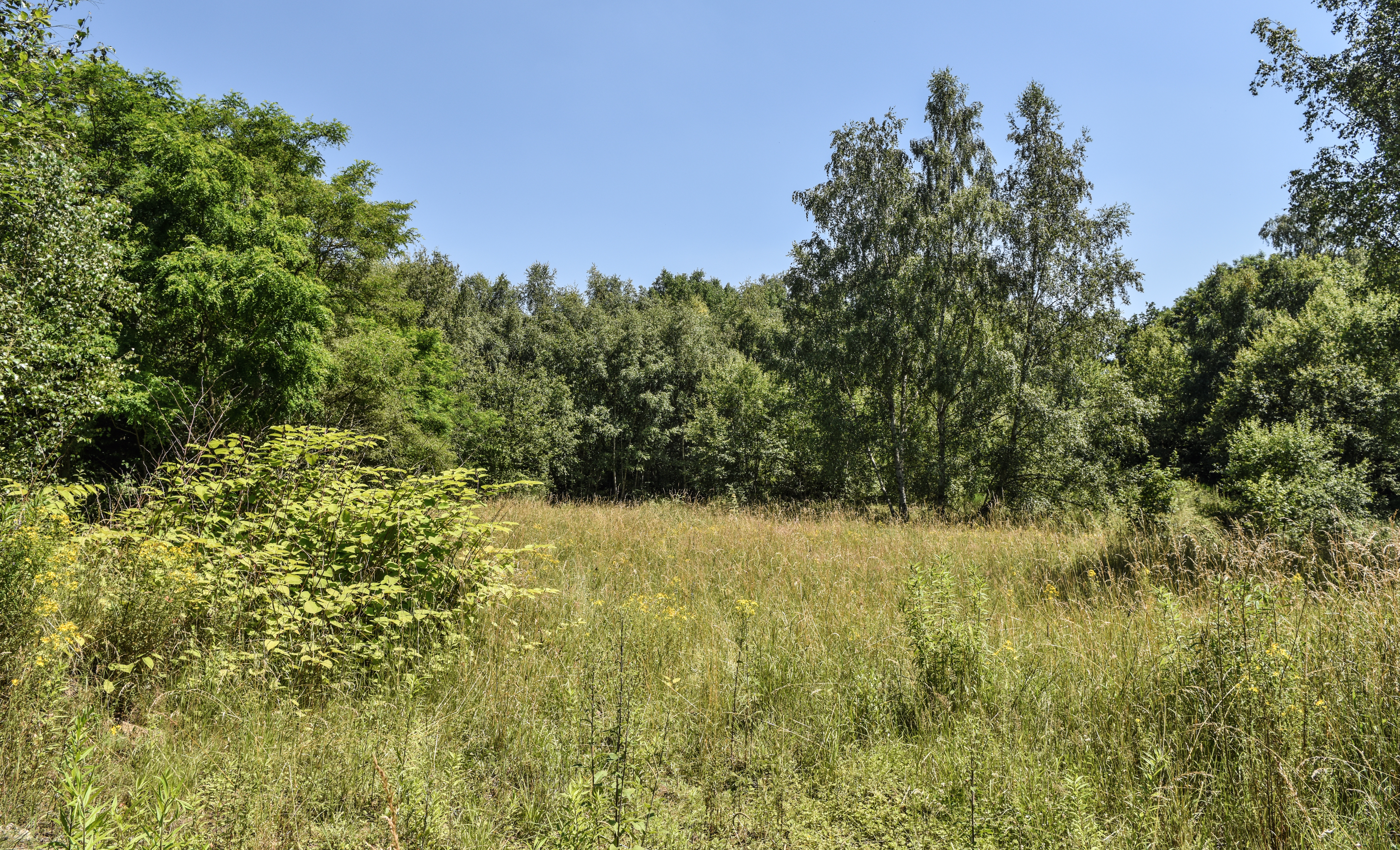 Nature at Schëttemarjal in Luxembourg City 01